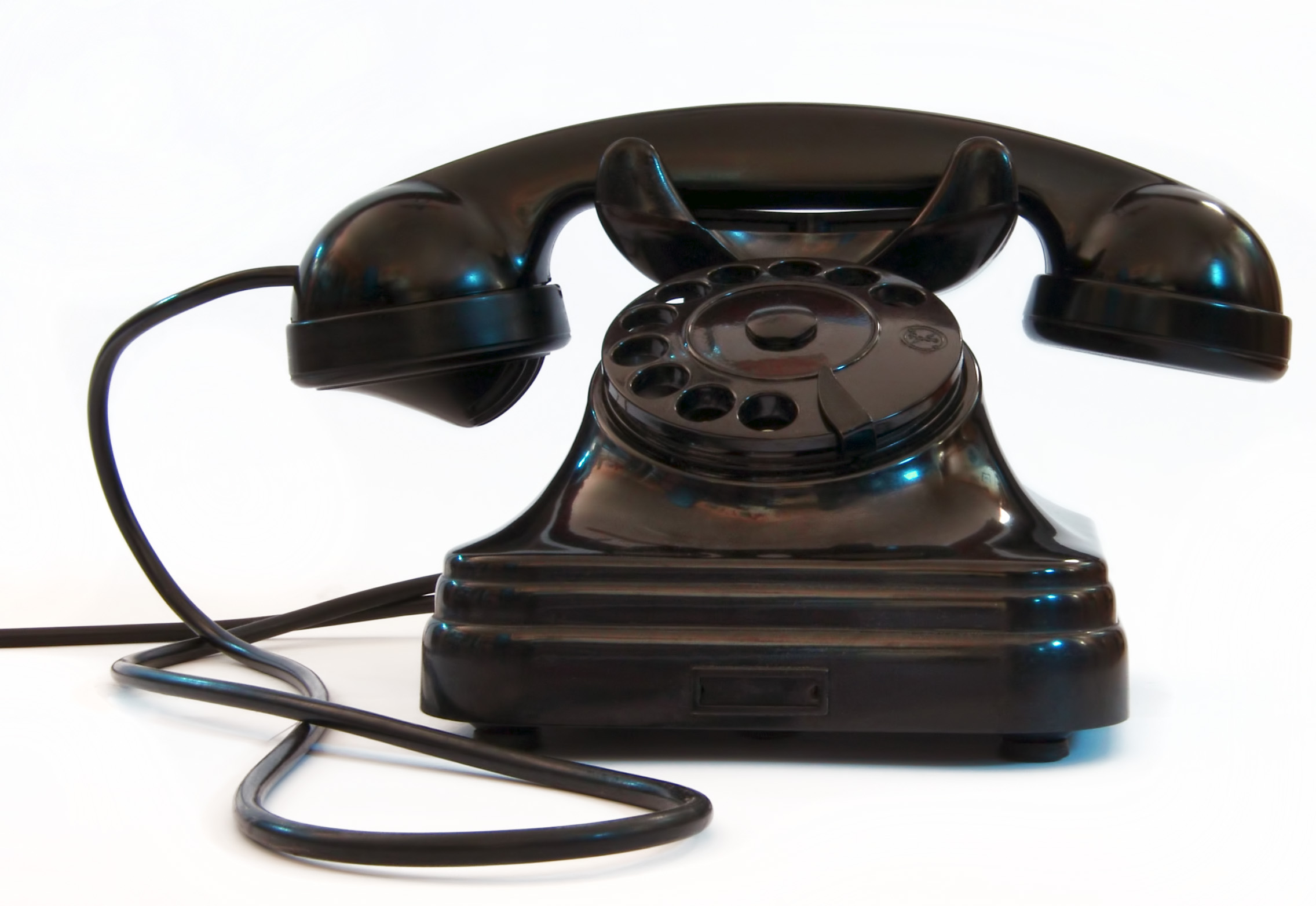 FACE F51 telephone, Italy, about 1950.